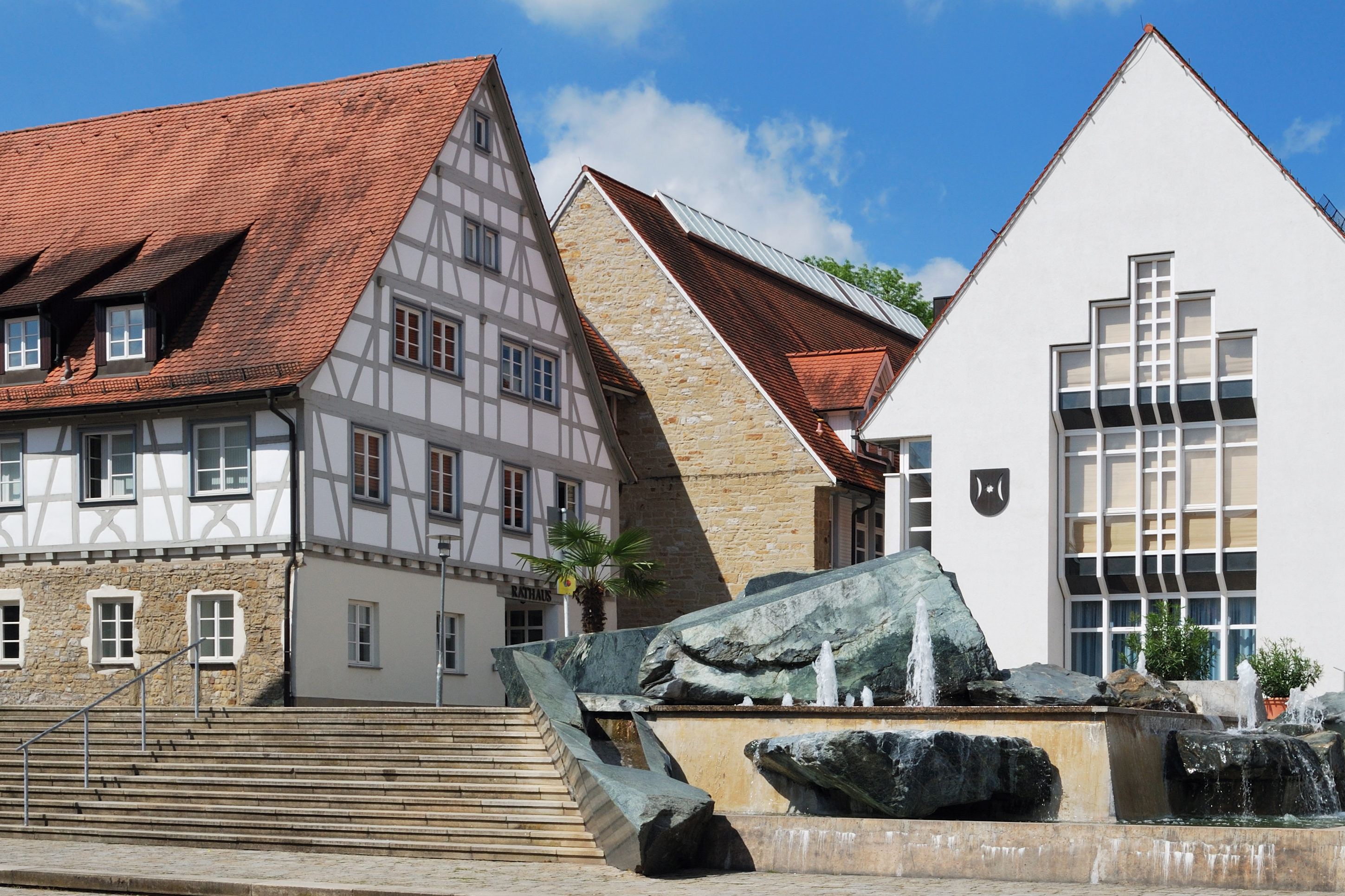 The city hall in Schwieberdingen in the federal state Baden-Württemberg in Germany.